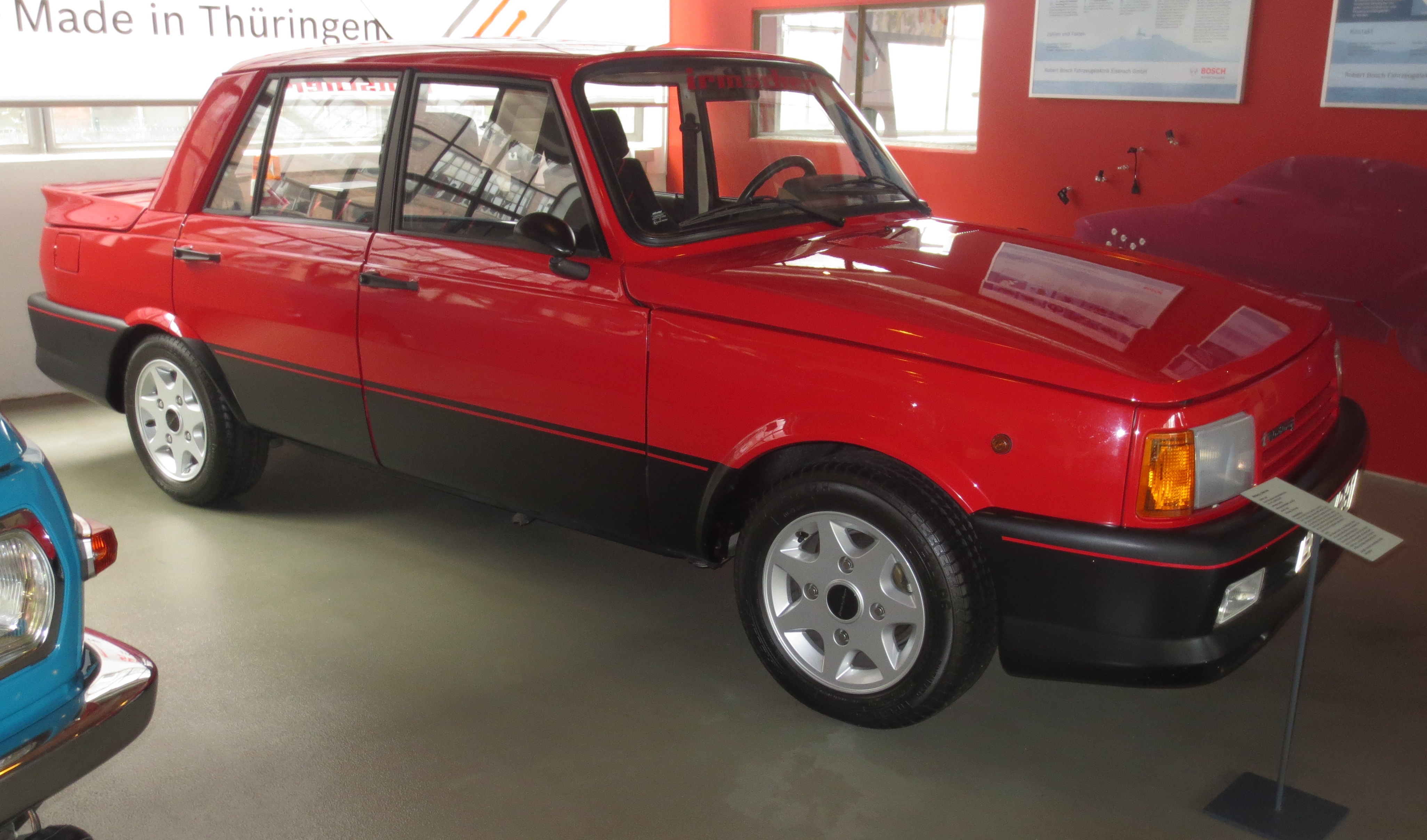 Subject: Wartburg 1.3 New Line Author: Luc106 Date:October 10th, 2014 Place/Country: Automobilwelt Eisenach Museum, Eisenach (Deutschland) I release all rights in the public domain. Licensing